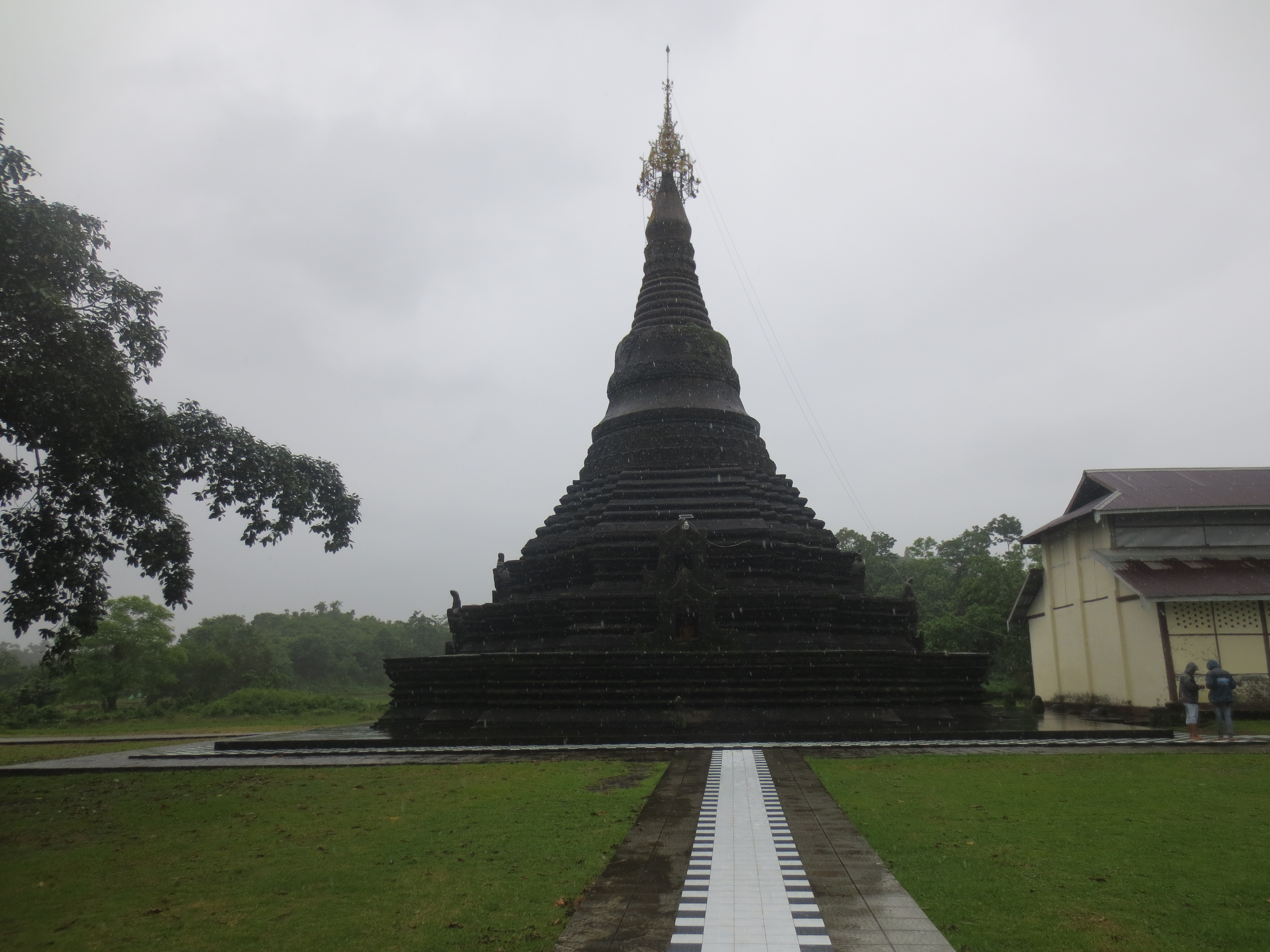 Mingala Man Aung Zedi is one of the famous five Man Pagodas inr Mrauk U.